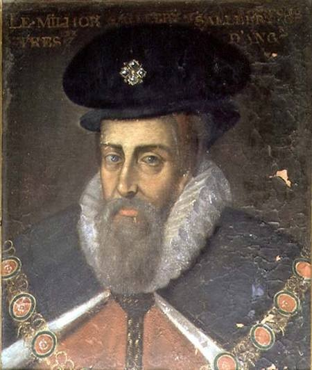 Portrait of Robert Cecil, 1st Earl of Salisbury (c.1563-1612)